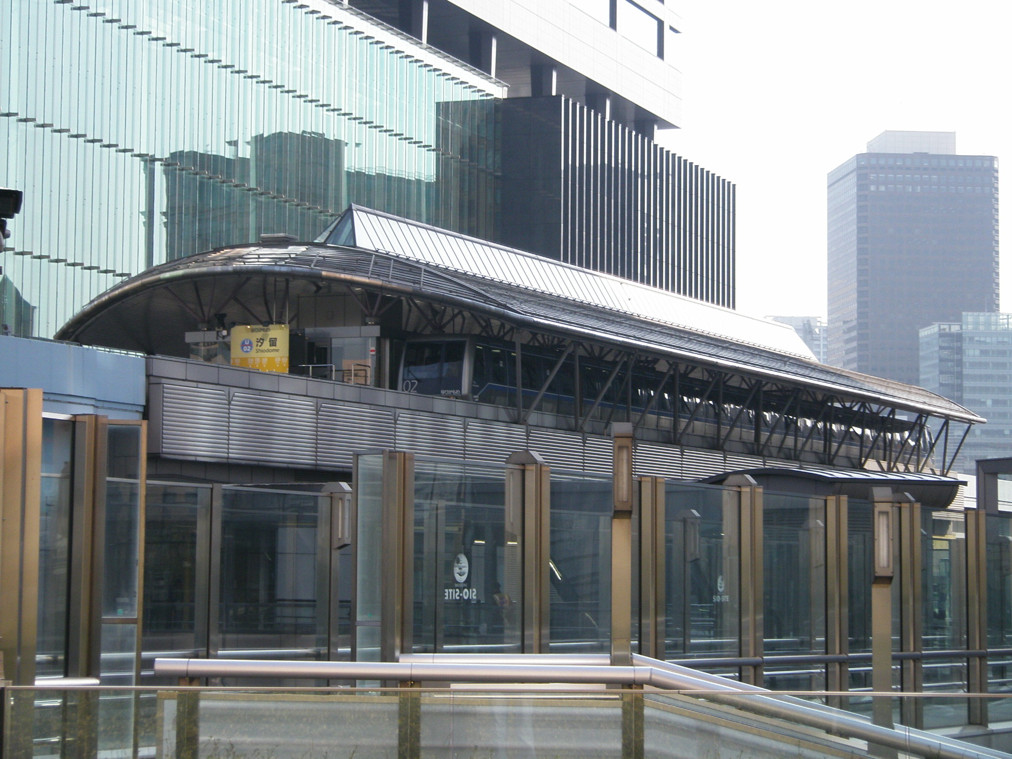 Shiodome Station, Yurikamome